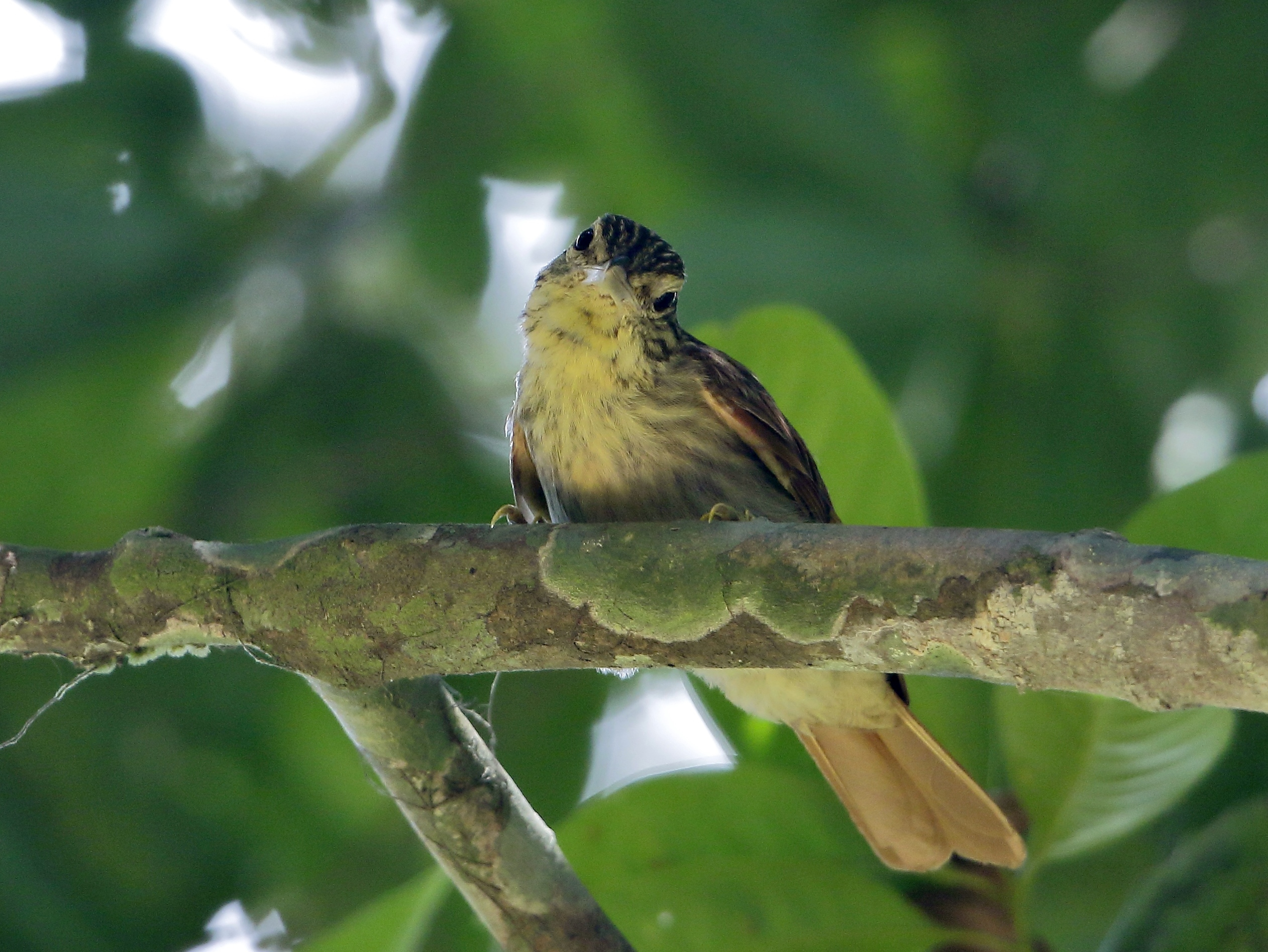 Striped woodhunter; Xapuri, Acre, Brazil